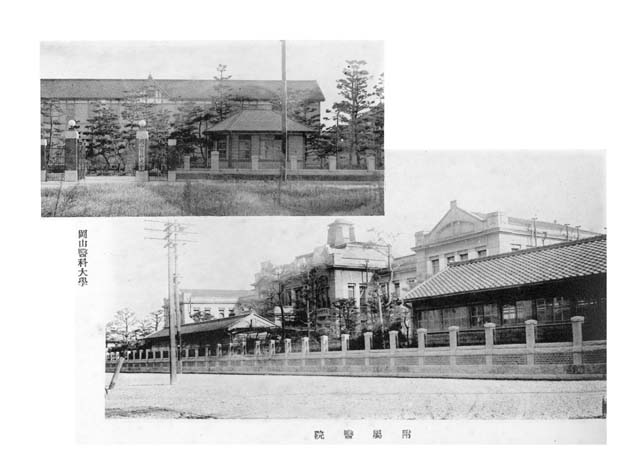 Former Okayama medical college (left) and hospital (right) in Okayama city.